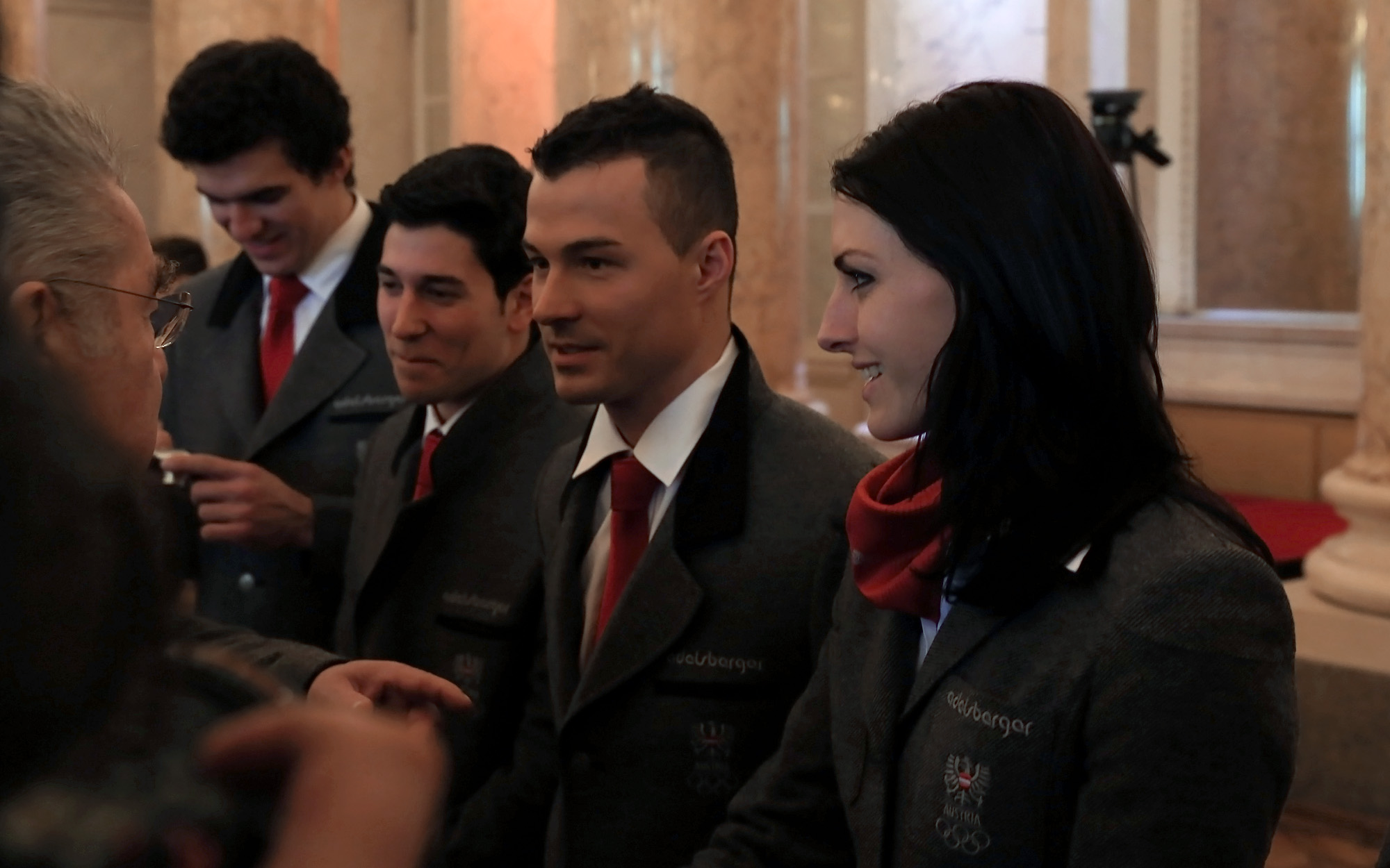 Athletes of the Austrian team for the 2014 Winter Olympics - Skeleton/Bobsleigh: Janine Flock, Matthias Guggenberger, Raphael Maier and Sebastian Heufler at Hofburg Palace in Vienna, Austria.